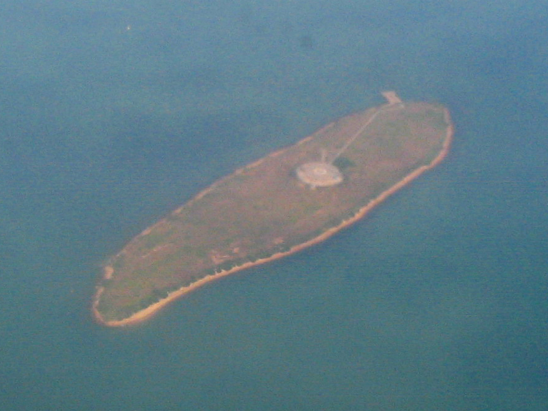 Photo of Siu Mo To